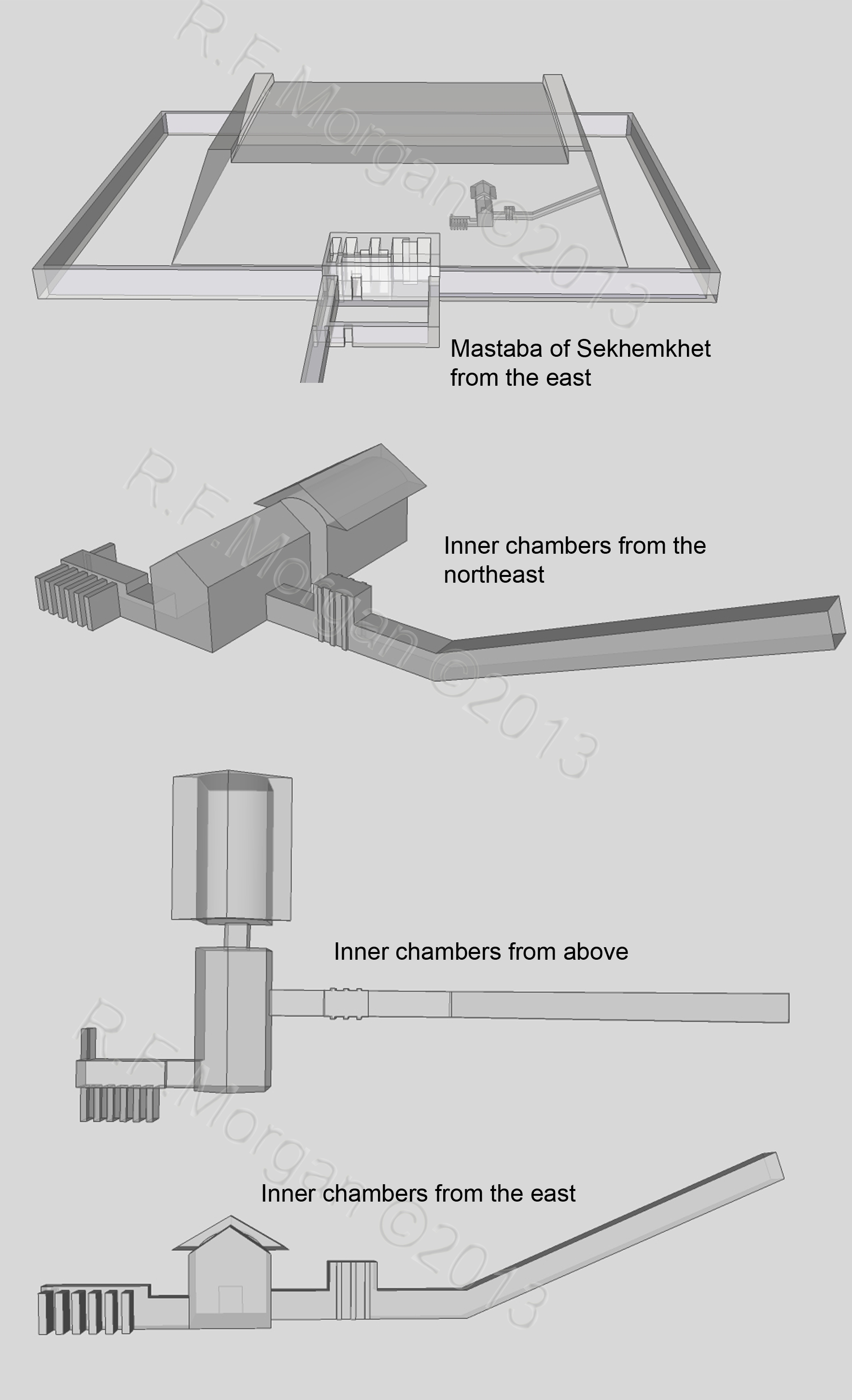 The mastaba and close-up views of the inner chambers of Shepseskaf